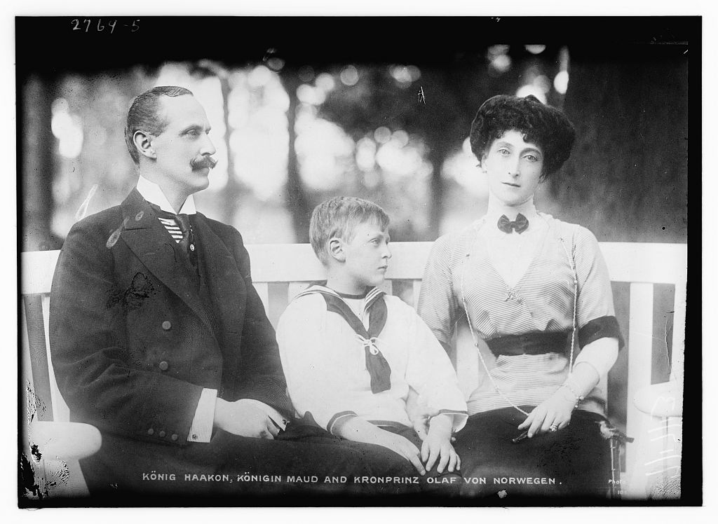 King Haakon, Queen Maud and Crown Prince Olaf from Norway. (LOC) Bain News Service,, publisher. Haakon VII of Norway, Maud of Wales and Crown Prince Olaf on 1913 July 17 in Norway 1 negative : glass ; 5 x 7 in. or smaller. Notes: Title and date from data provided by the Bain News Service on the negative and caption card. Forms part of: George Grantham Bain Collection (Library of Congress). Format: Glass negatives. Repository: Library of Congress, Prints and Photographs Division, Washington, D.C. 20540 USA, General information about the Bain Collection is available at Persistent URL: Call Number: LC-B2- 2769-5